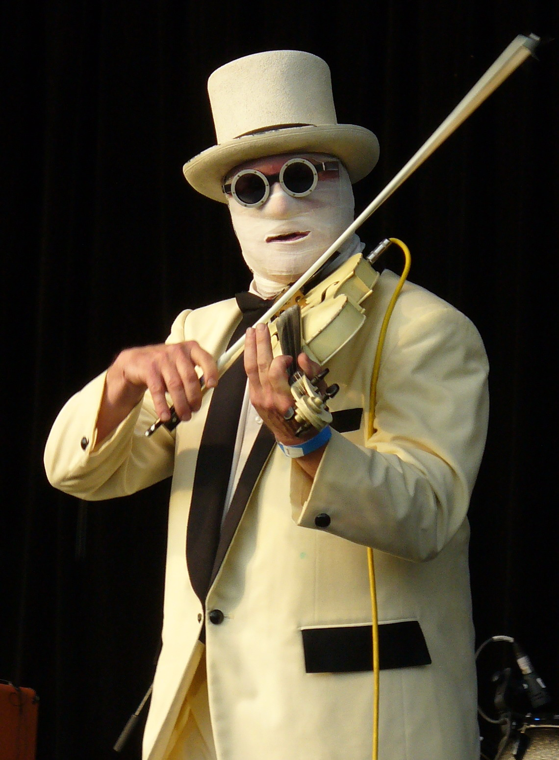 Canadian independent artist Nash the Slash in concert at the Friendship Festival in Fort Erie, ON